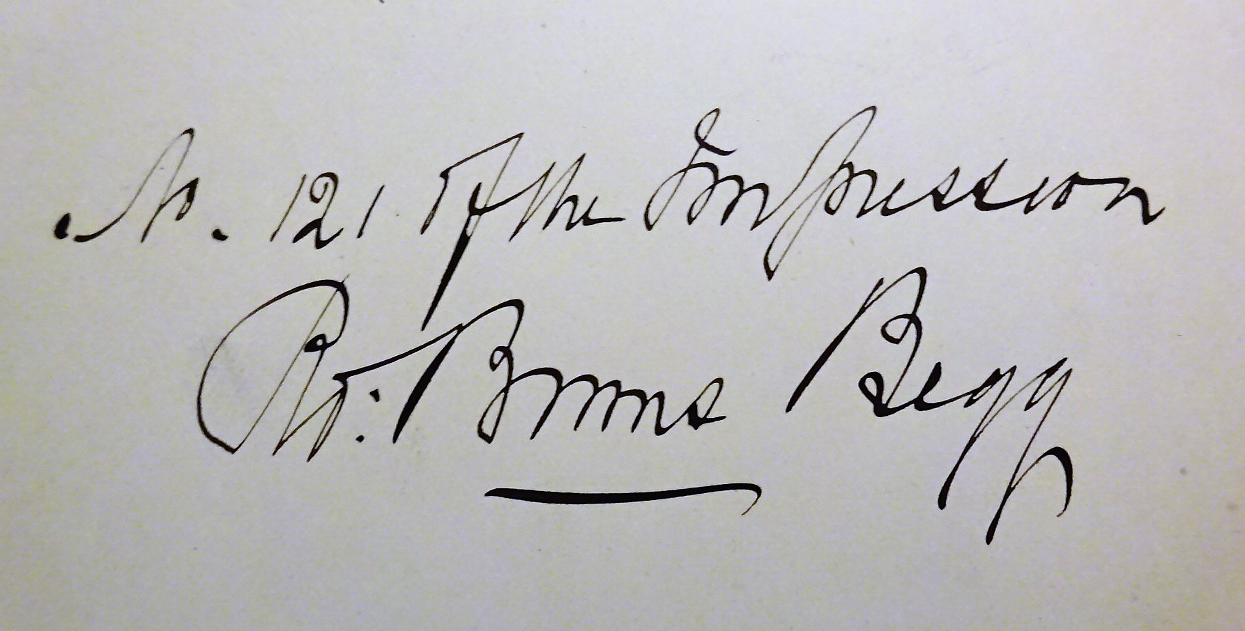 Signature, etc of Robert Burns Begg, grandson of Isabella Begg nee Burns and a great nephew of Robert Burns the poet.